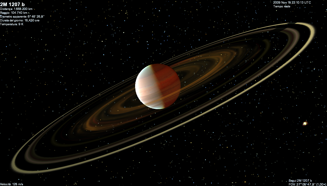 2M 1207 b, young exoplanet.